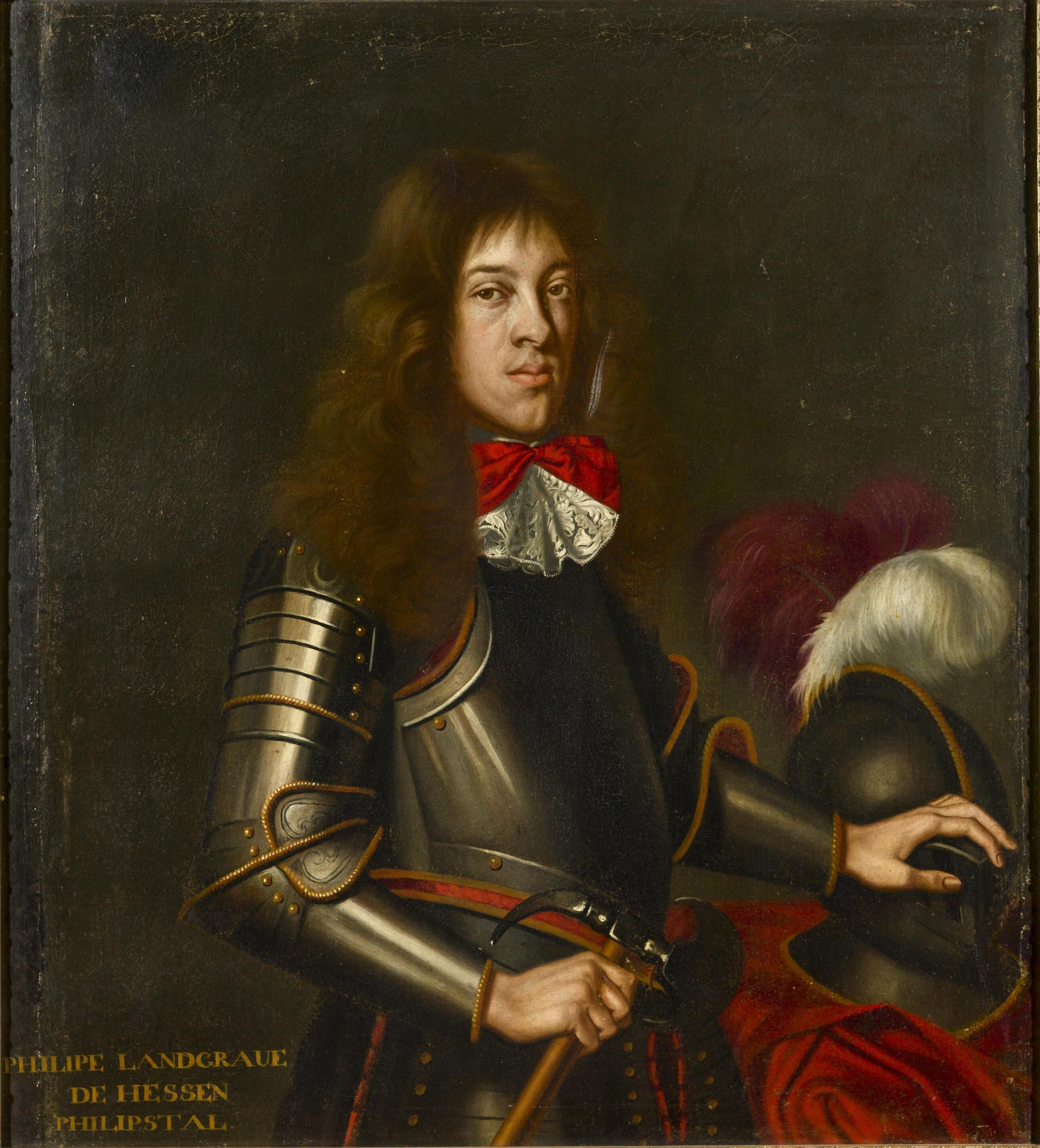 Portrait of Philipp of Hesse-Philippsthal (1655-1721), Knight of the Order of the Elephant (Denmark).